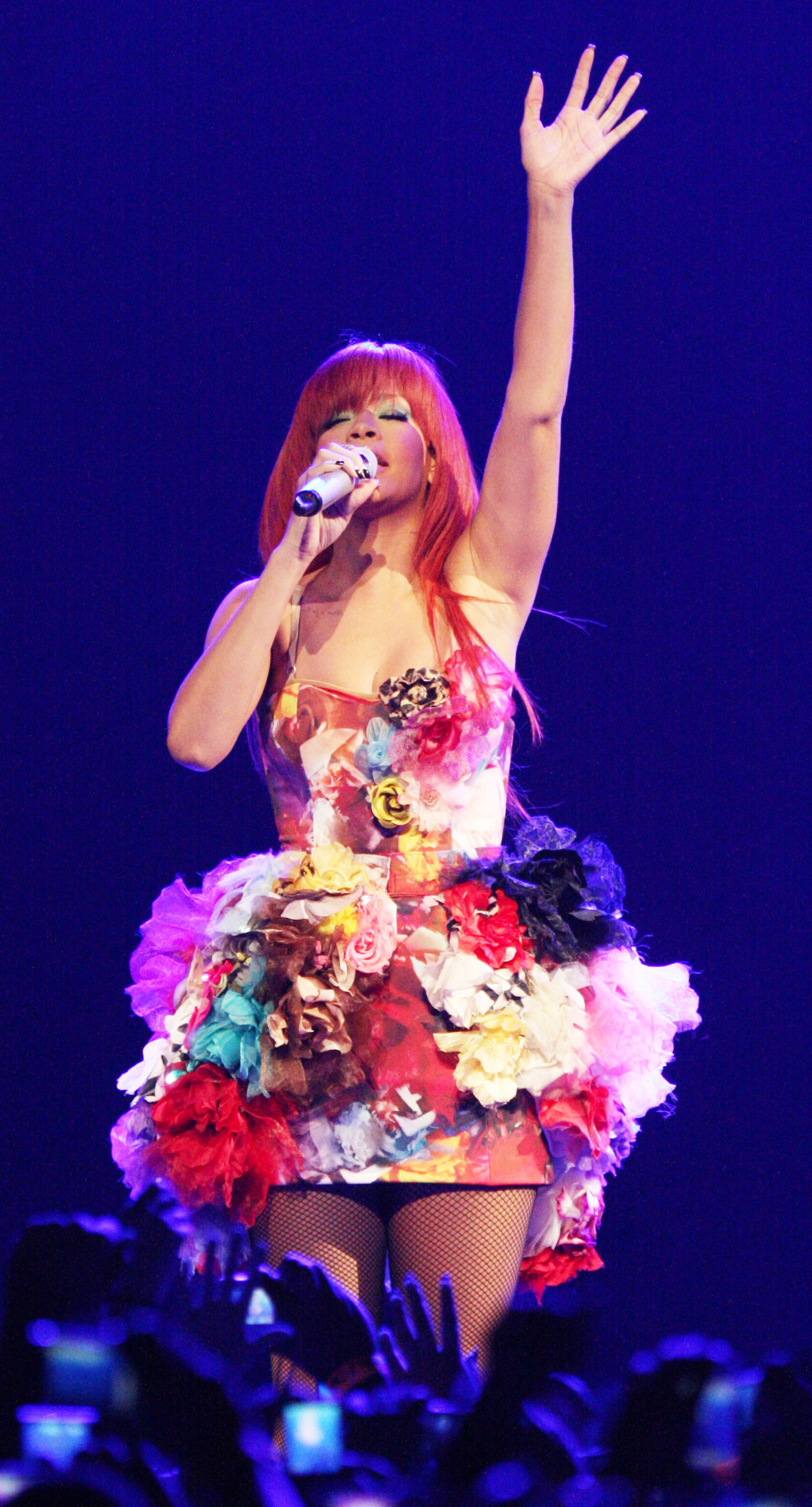 Rihanna performing at her Last Girl On Earth Tour in Sydney, Australia in March 2011.